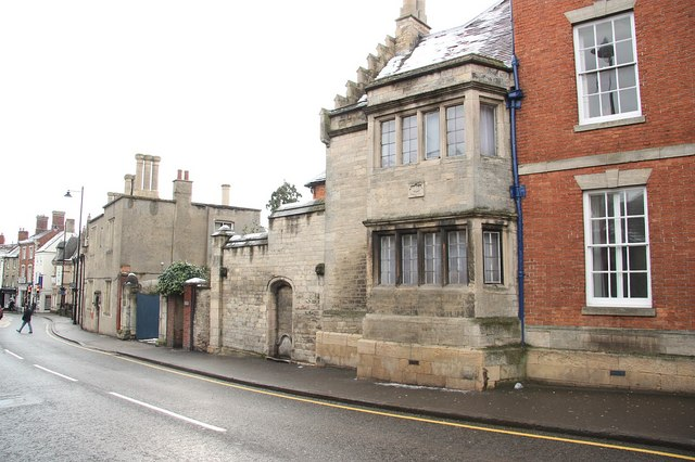 Manor House 16th & 17th century stonework in the Manor House on Northgate